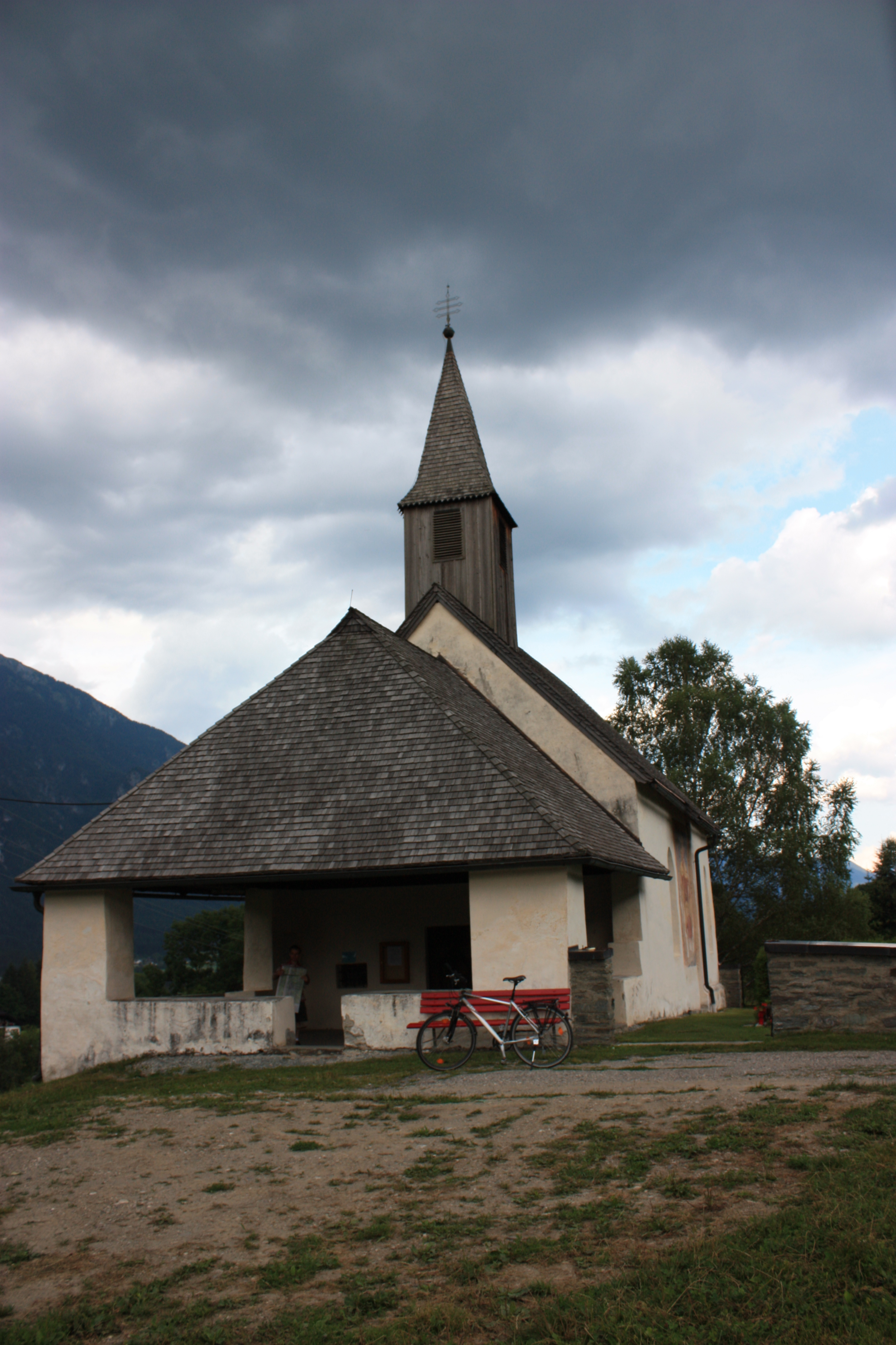 Subsidiary church Saint Valentin Locality: Paßriach Community: Hermagor